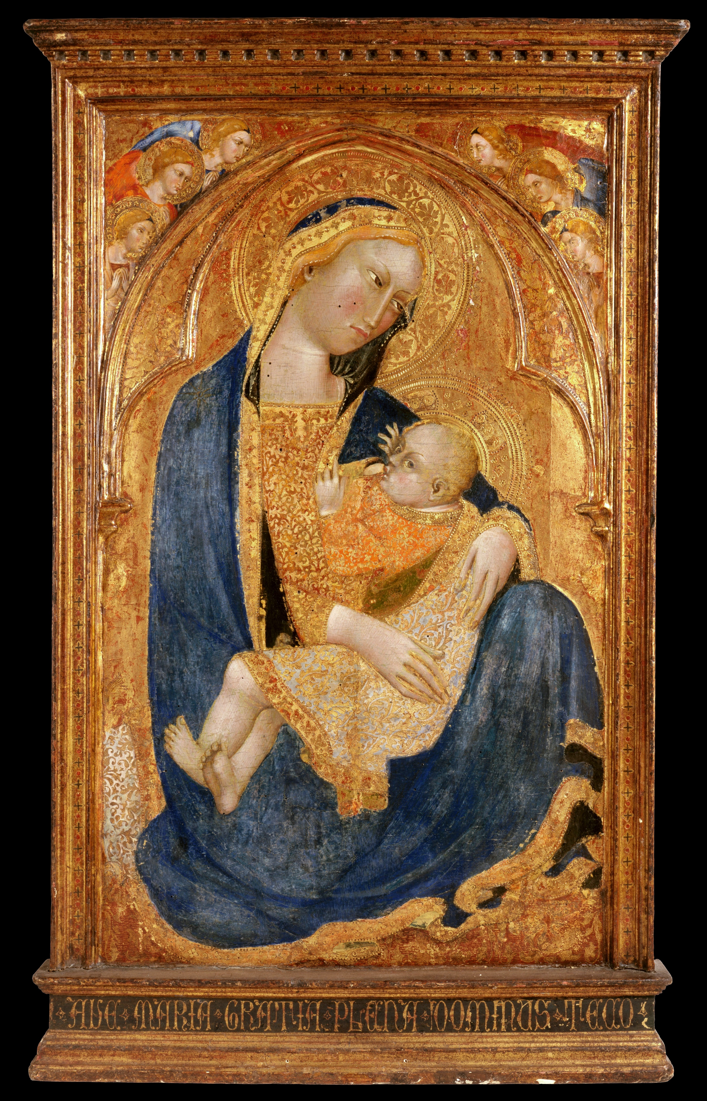 Giovanni di Nicola da Pisa, Madonna and Child, Williamstown (MA) , Williams College Museum of Art